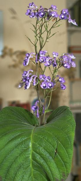 Streptocarpus eylesii ssp eylesii